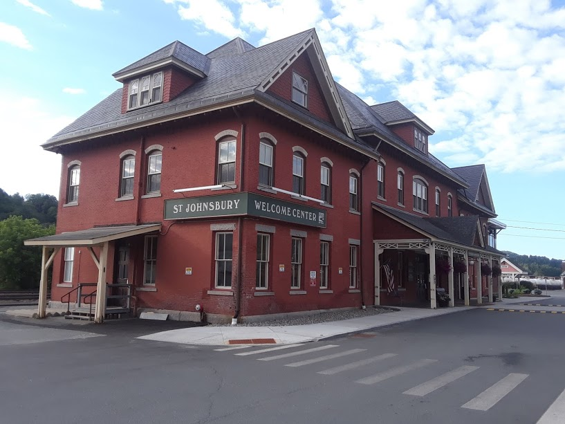 St. Johnsbury Welcome Center in downtown St. Johnsbury, Vermont.